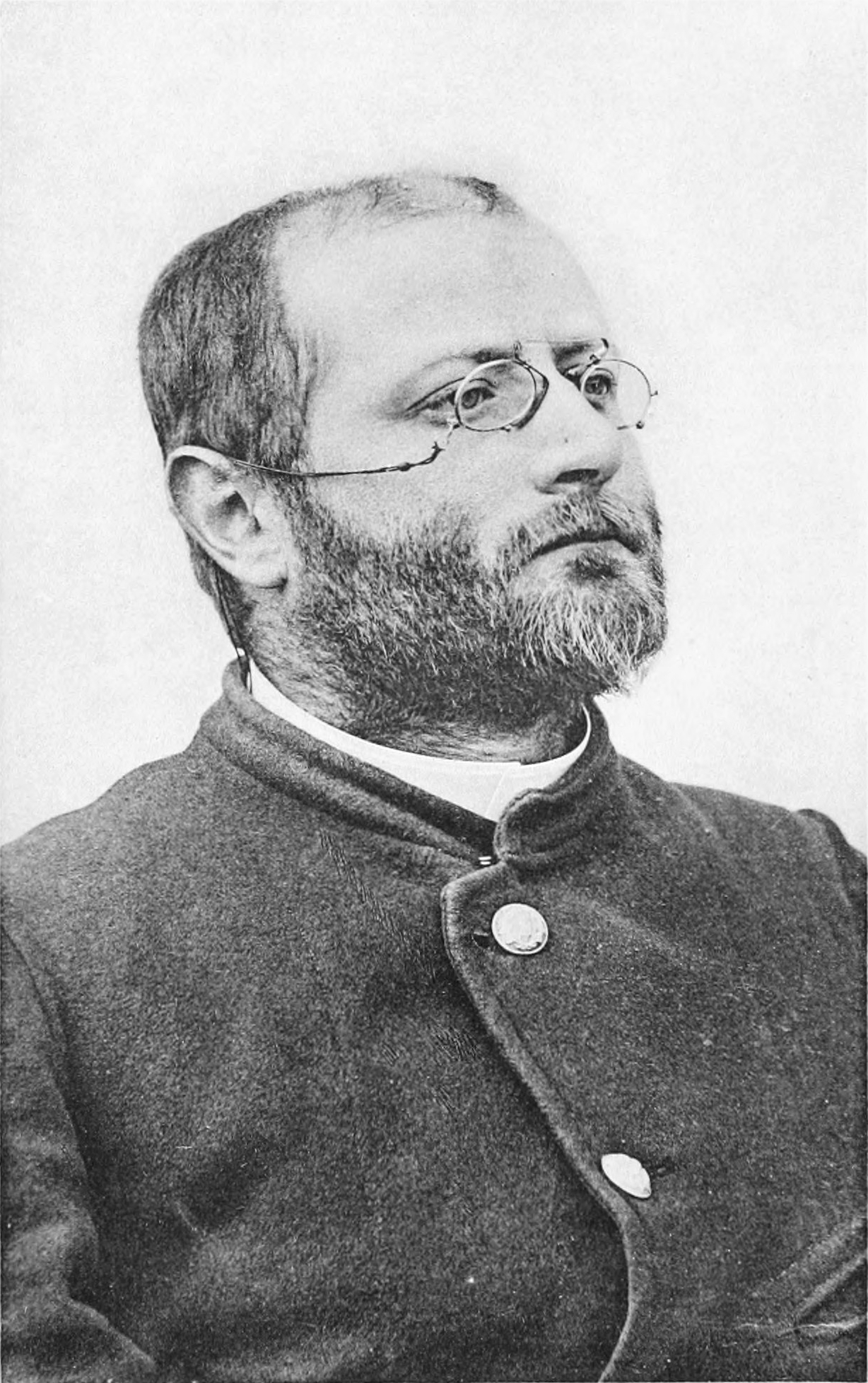 Photo of French zoologist César Marie Félix Ancey.